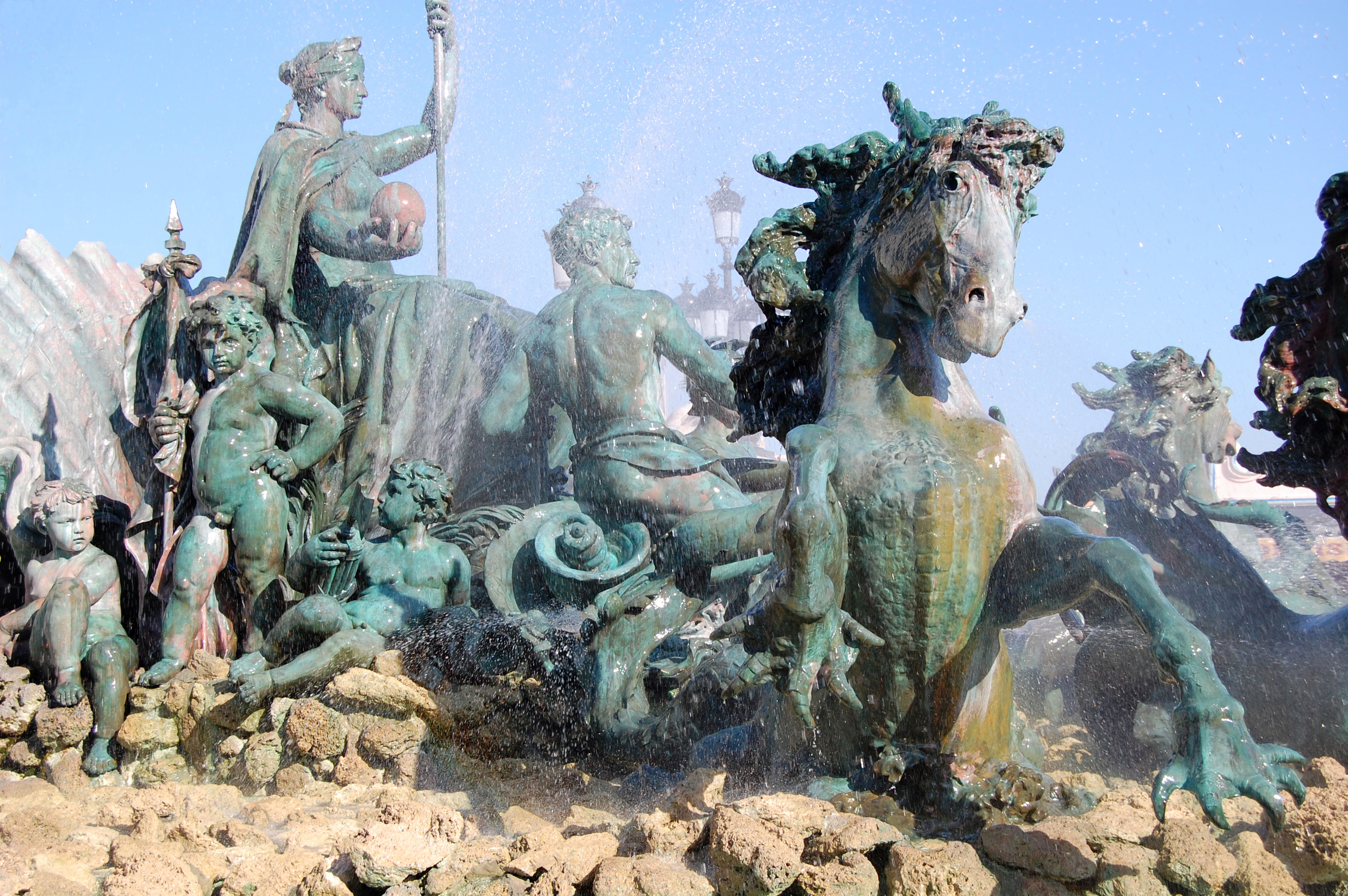 Fountain of the "colonne des Girondins", square "Place des Quinconces", Bordeaux, France